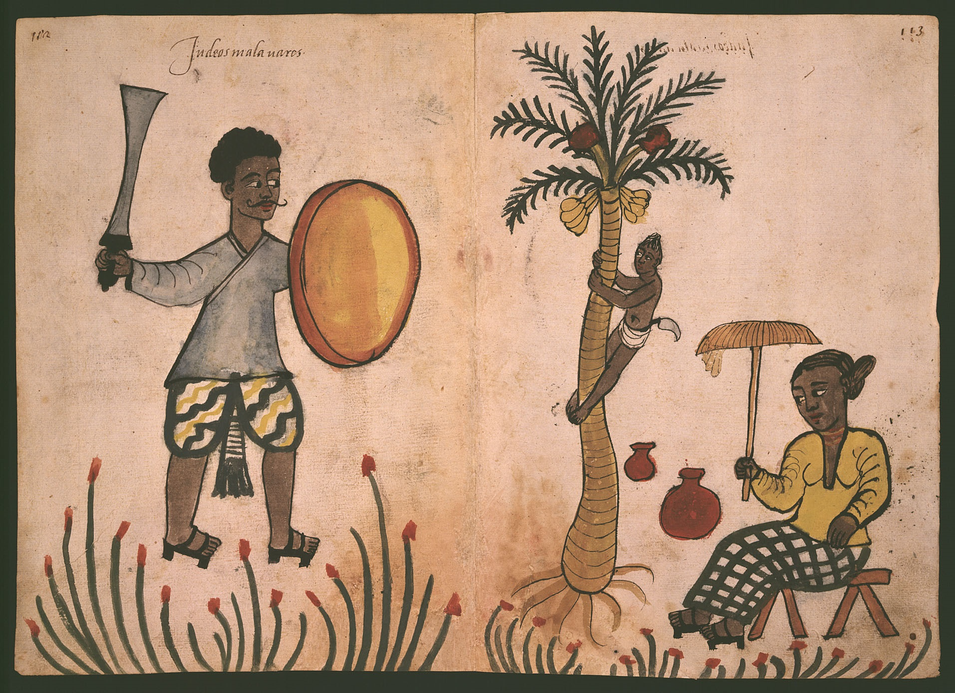 Anonymous Portuguese illustration contained within the 16th century Códice Casanatense, depicting the Jewish people of the Malabar Coast in India. The inscription reads: "Malabarese Jews".